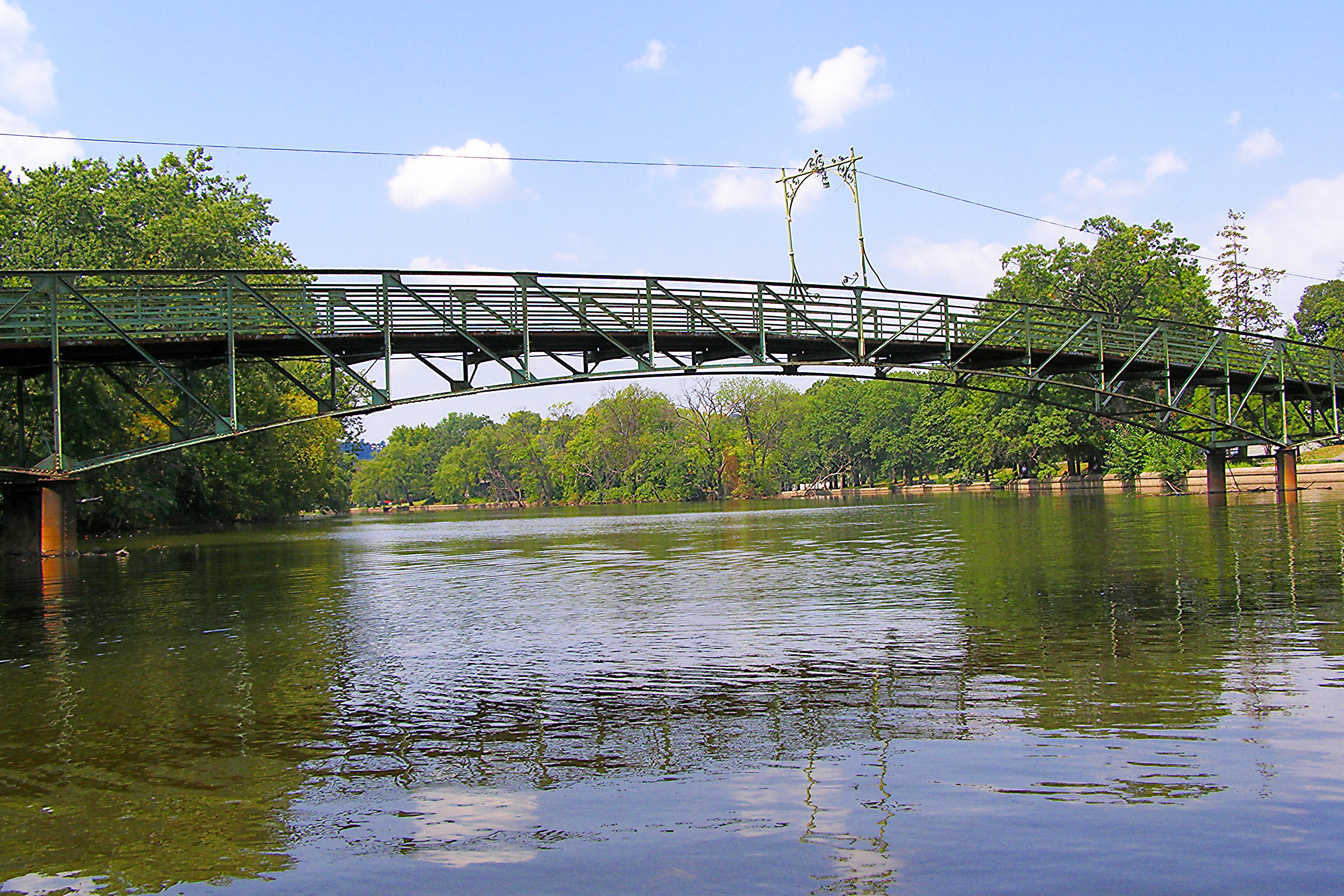 West Side Park Pedestrian Bridge over the Passaic River, Paterson, New Jersey (looking west by kayak)